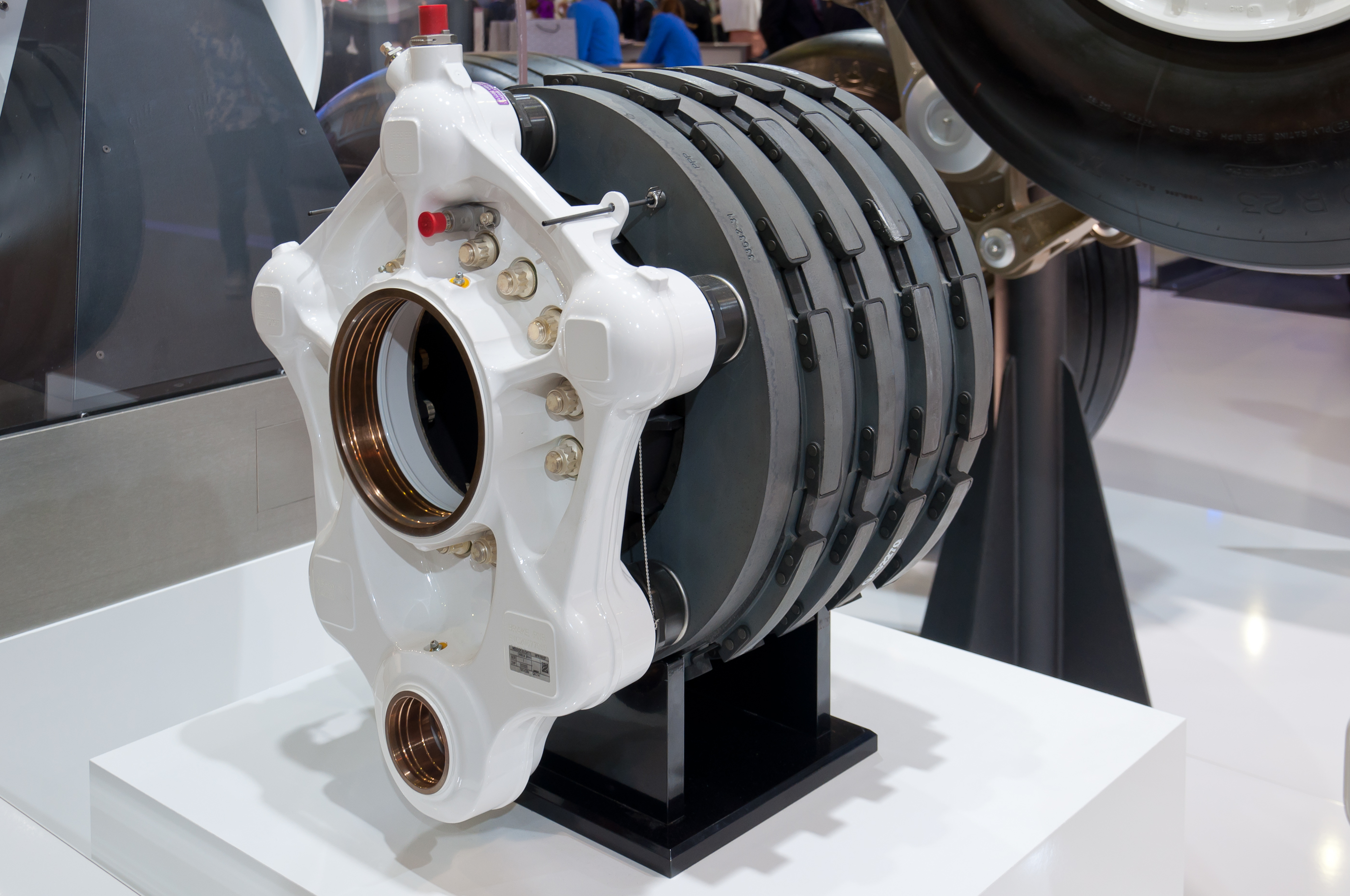 Safran - Messier/Bugatti/Dowty carbon ceramic brake system for the Airbus A350 aircraft family (first installed on a flight test aircraft in 2013).